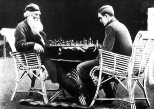 Tolstoy playing chess against the son of Vladimir Chertkov, his publisher